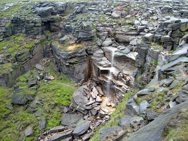 Kinder Downfall Even after a few days of rain, the downfall was only a trickle.